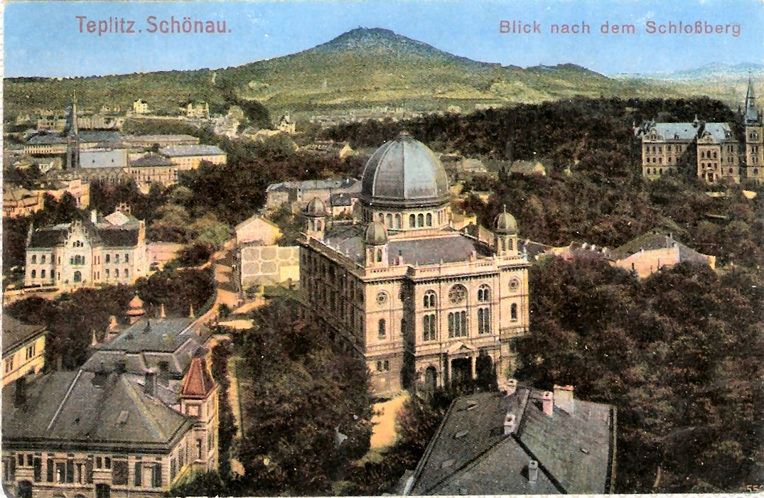 the new synagogue of teplice